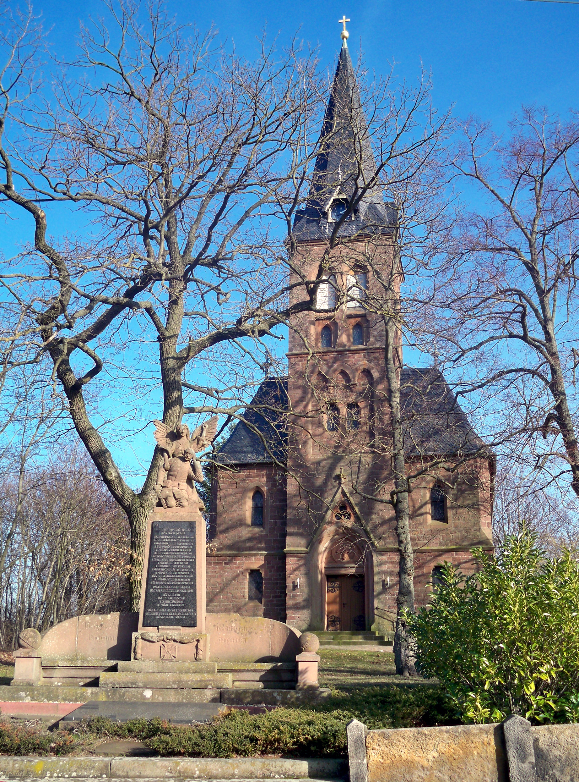 Etingen, Oebisfelde-Weferlingen, Saxony-Anhalt, church and war memorial